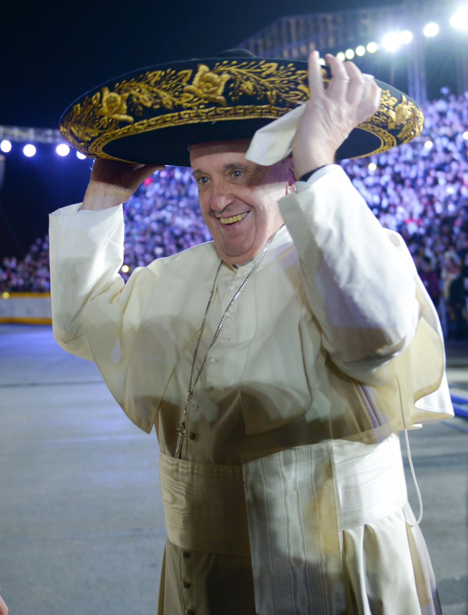 12 de febrero del 2016